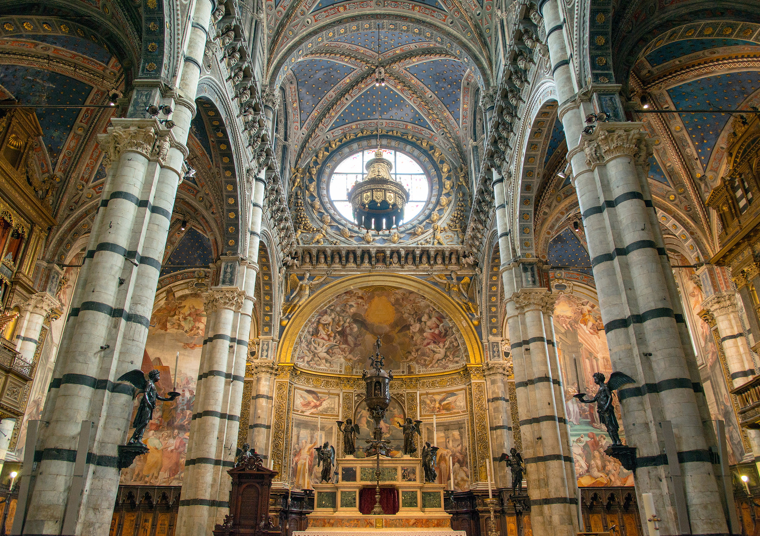 Columns and altar area